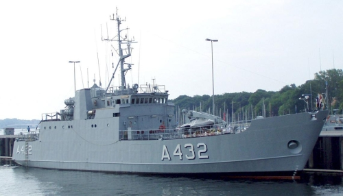 Tasuja.